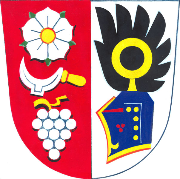 Municipal coat of arms of Moravany village, Hodonín District, Czech Republic.